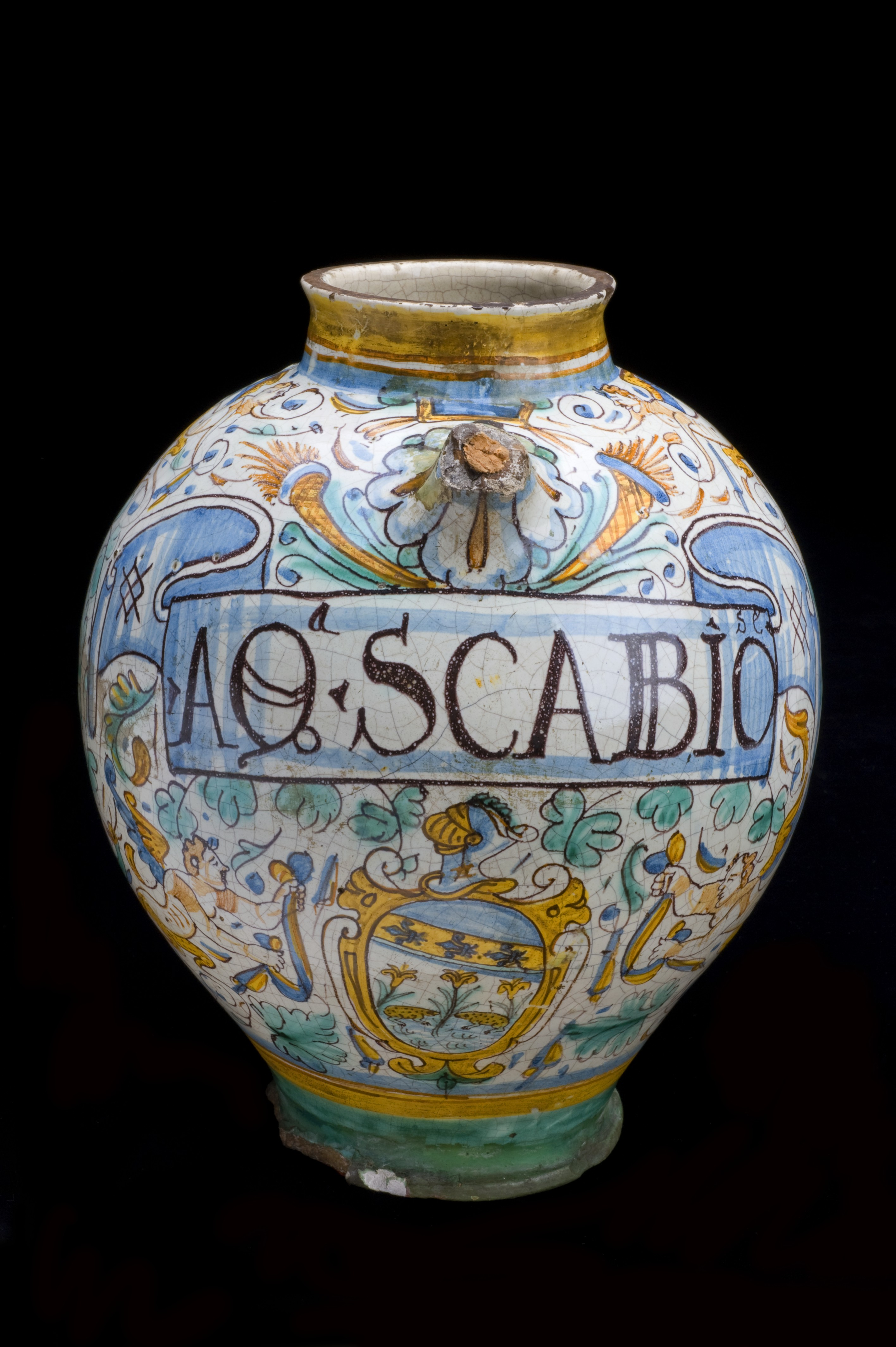 The Latin inscription painted on the side, Aqua Scabiosae, translates into English as “Scabious Water”. Water infused with pink, white and blue scabious flowers was stored in this earthenware jar, probably with a protective cover of vellum or paper tied with string. The water was drunk to expel phlegm from the body, especially if coughs and colds were affecting the chest. Taken with theriac – an expensive thick sticky liquid medicine made from numerous ingredients – the treatment was used against plague. maker: Unknown maker Place made: Deruta, Perugia, Umbria, Italy Wellcome Images Keywords: theriac; syrup jar; Plague; Pharmacy; phlegm